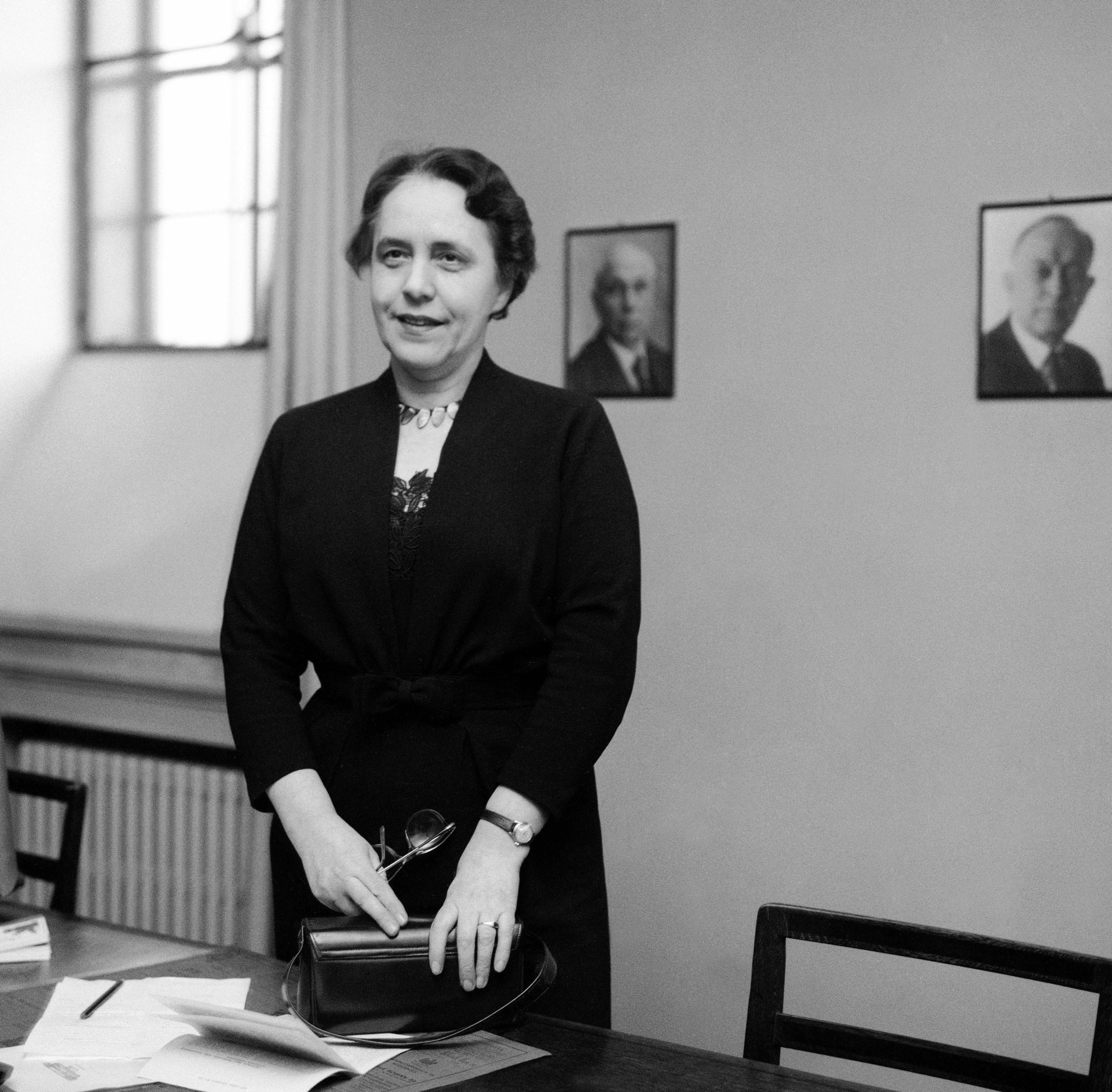 Photograph of the Finnish politician Hertta Kuusinen in Helsinki.